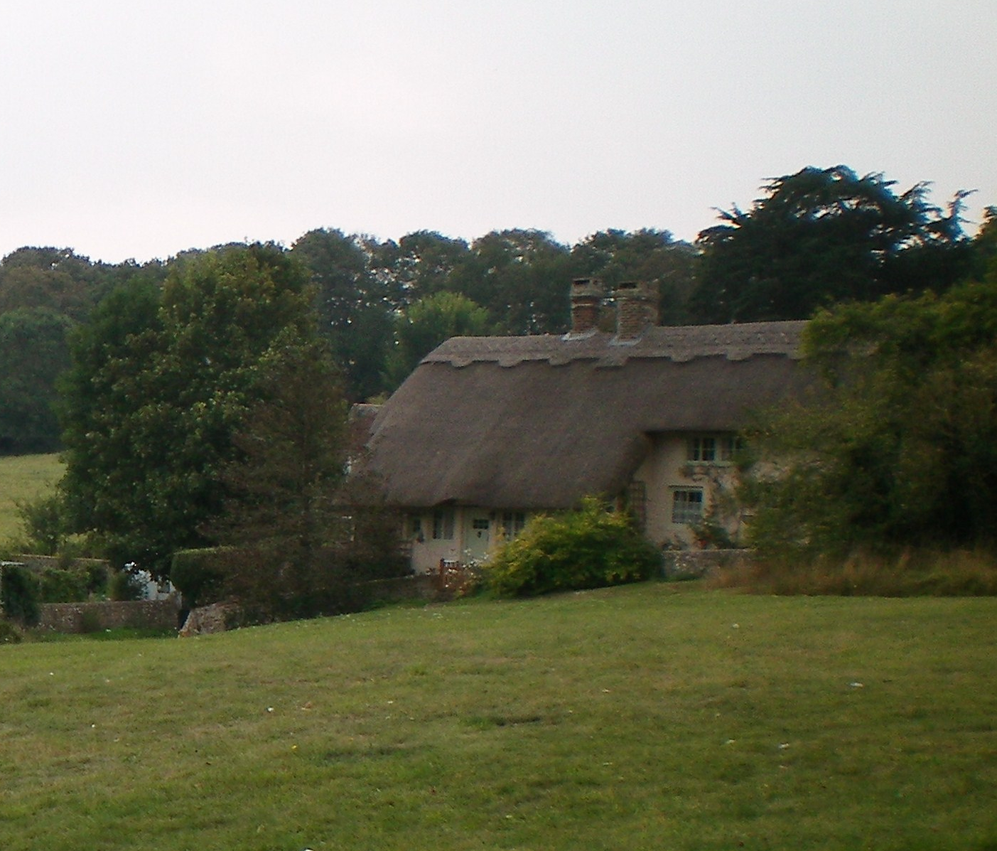 This is a version of the image cropped to show only Thatched Cottage.